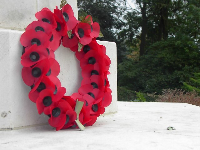 Poppie's (Ramparts Cemetery)